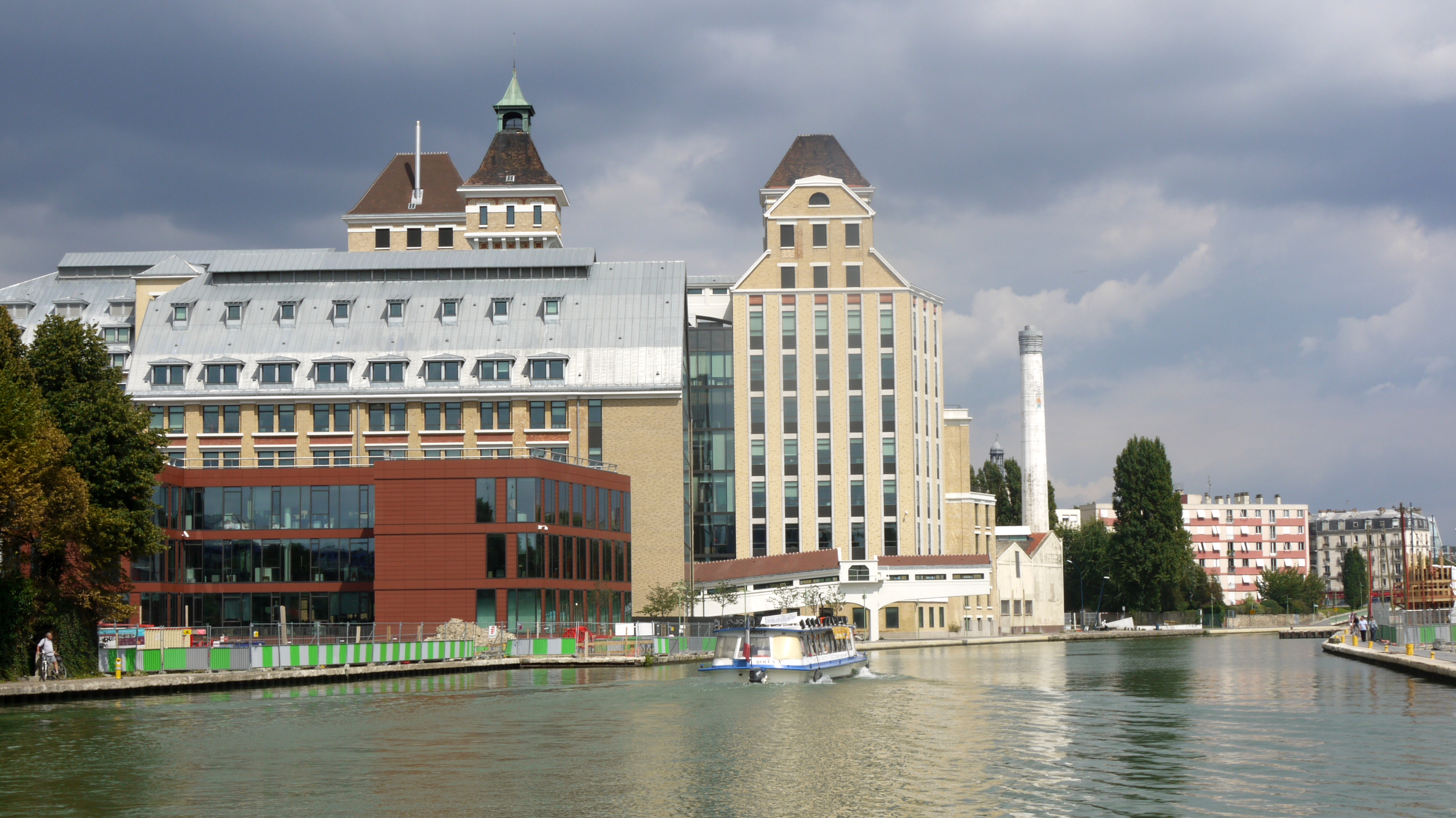 Grands moulins Pantin in Pantin, Ile de France, France